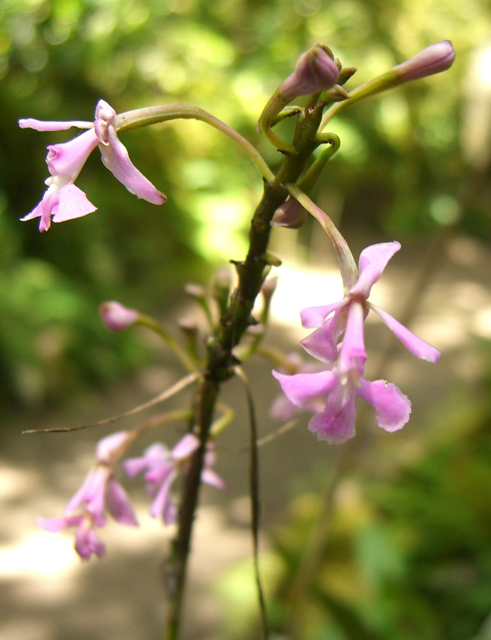 Please report references to .